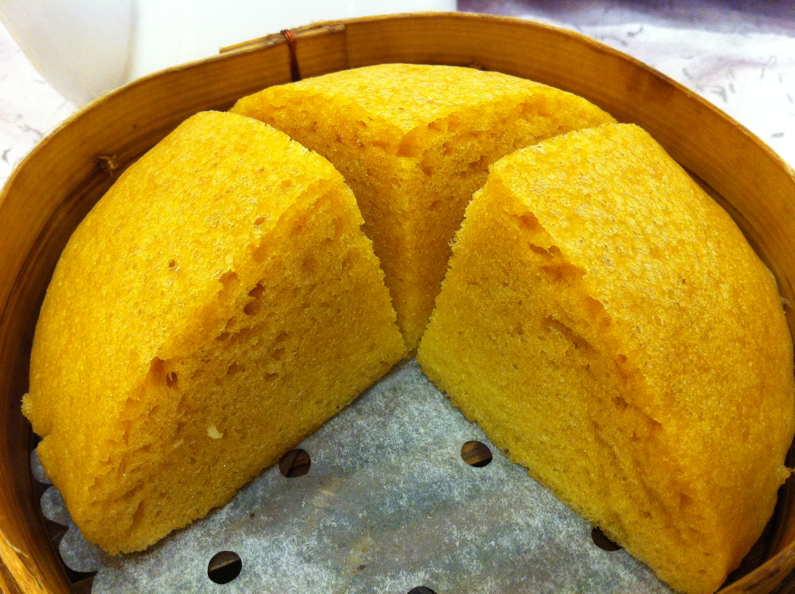 上環 寶湖金宴 寶湖飲食集團, Treasure Lake Golden Banquet Restaurant, On Tai Street, Sheung Wan, Hong Kong